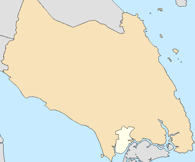 Location map of Iskandar Puteri, a city within the Malaysian state of Johor.